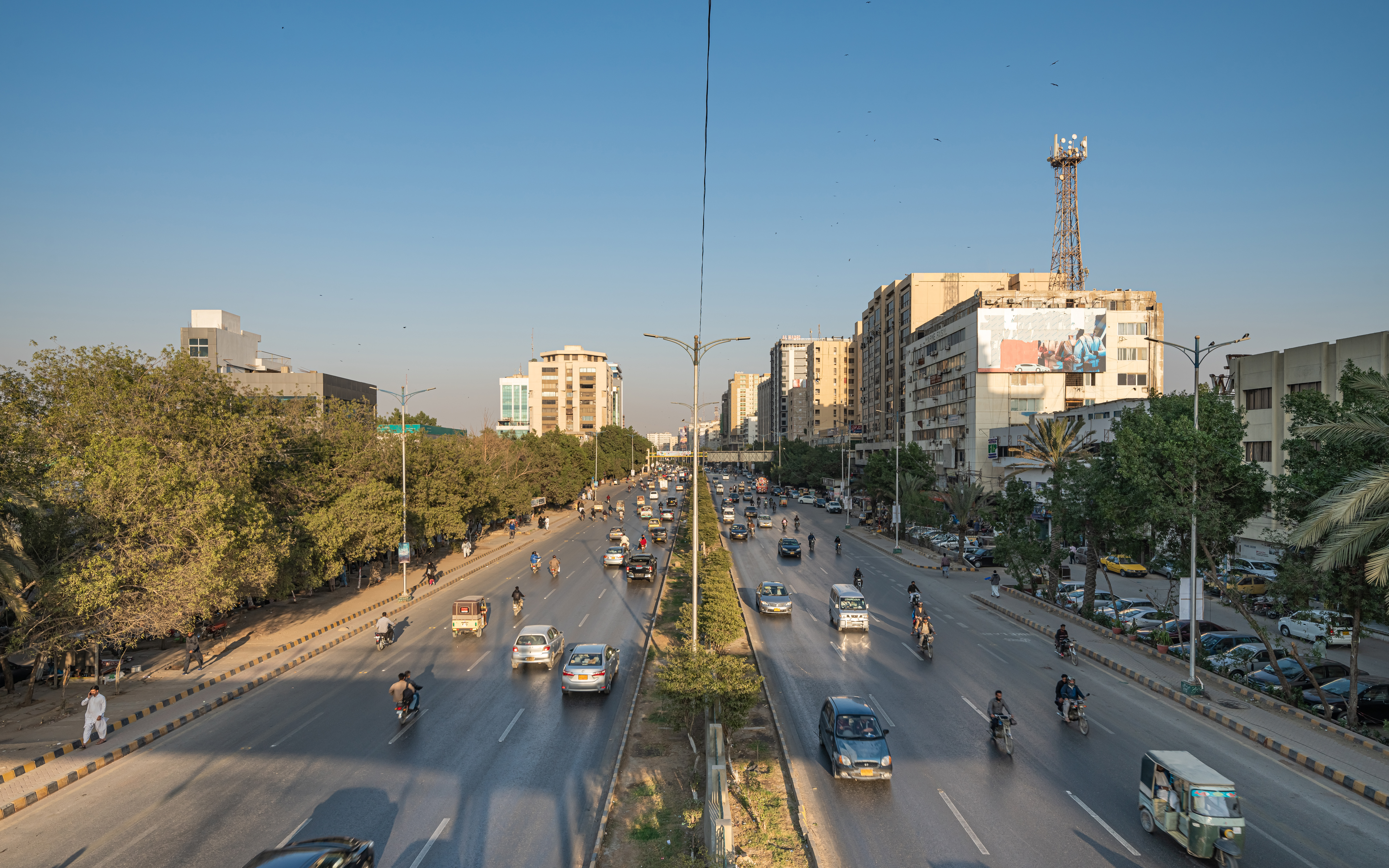 Highway-like road in PECHS area in Karachi, Pakistan